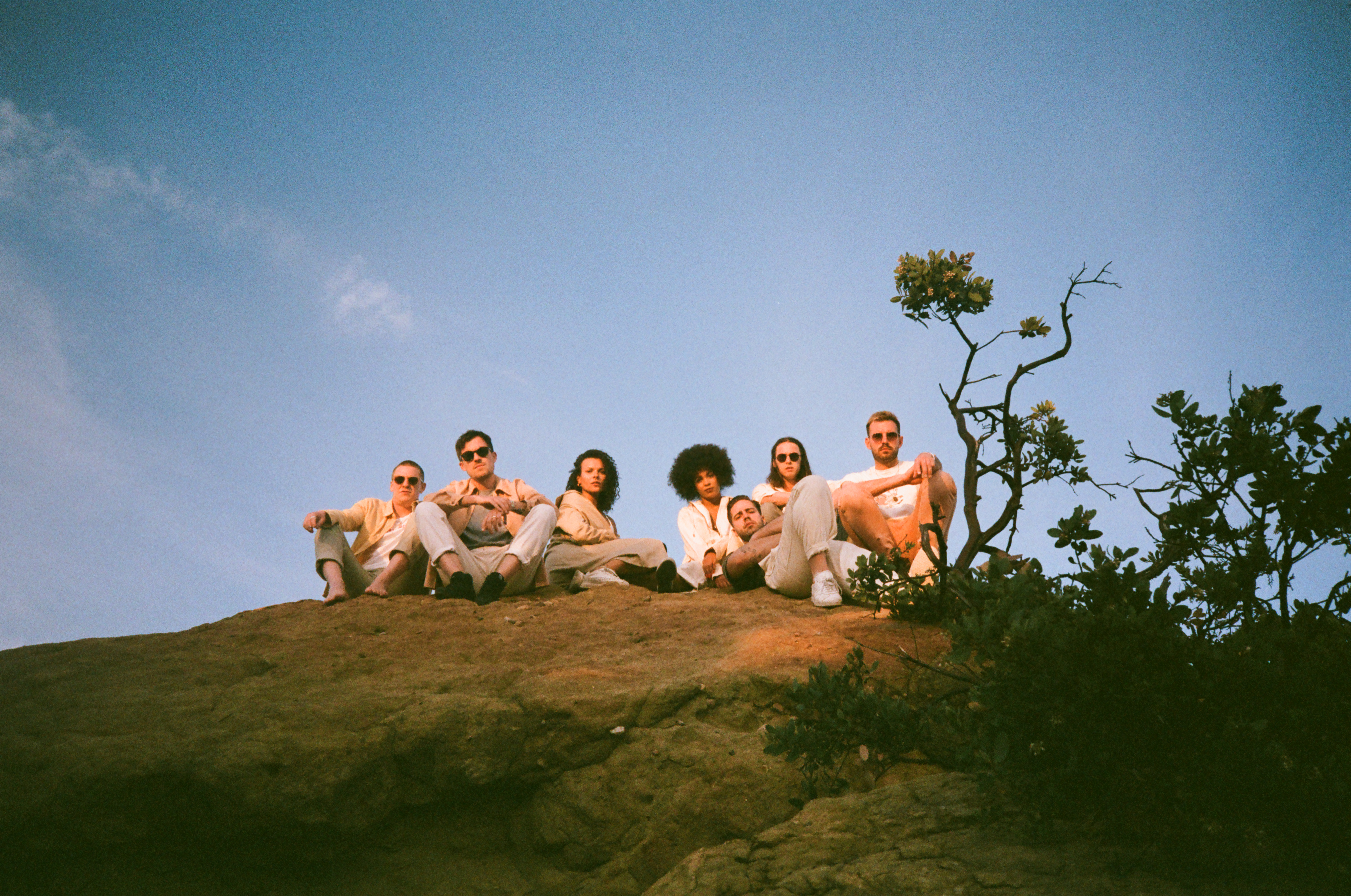 Jungle.